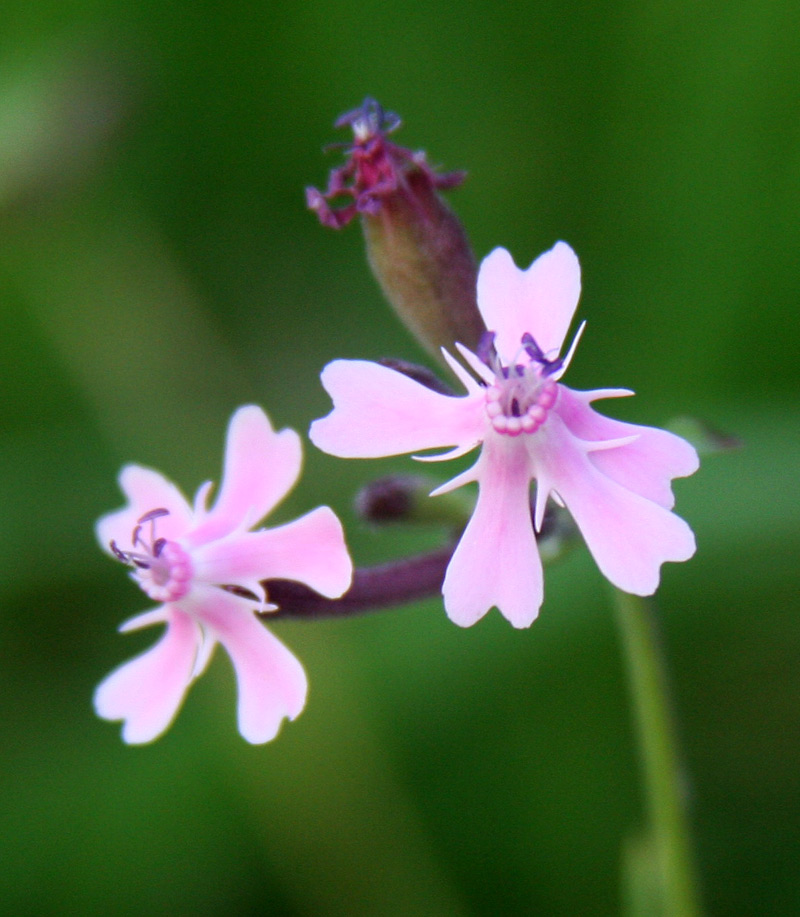 זו השכיחה בציפורניות, והיא נפוצה הן בפרטים בודדים והן במרבדים צפופים של רבבות פרטים. מרבדים בולטים במיוחד נראים במטעי זיתים לפני החריש ובשדות נטושים זה-מקרוב. הצמח מקדים לנבוט ומקדים לפרוח ומקדים להבשיל זרעים, וכך מסתגל למקצב החיים במטעים הנחרשים באב